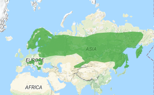 Three-toed Woodpecker (Picoides tridactylus) new distribution map. BirdLife International